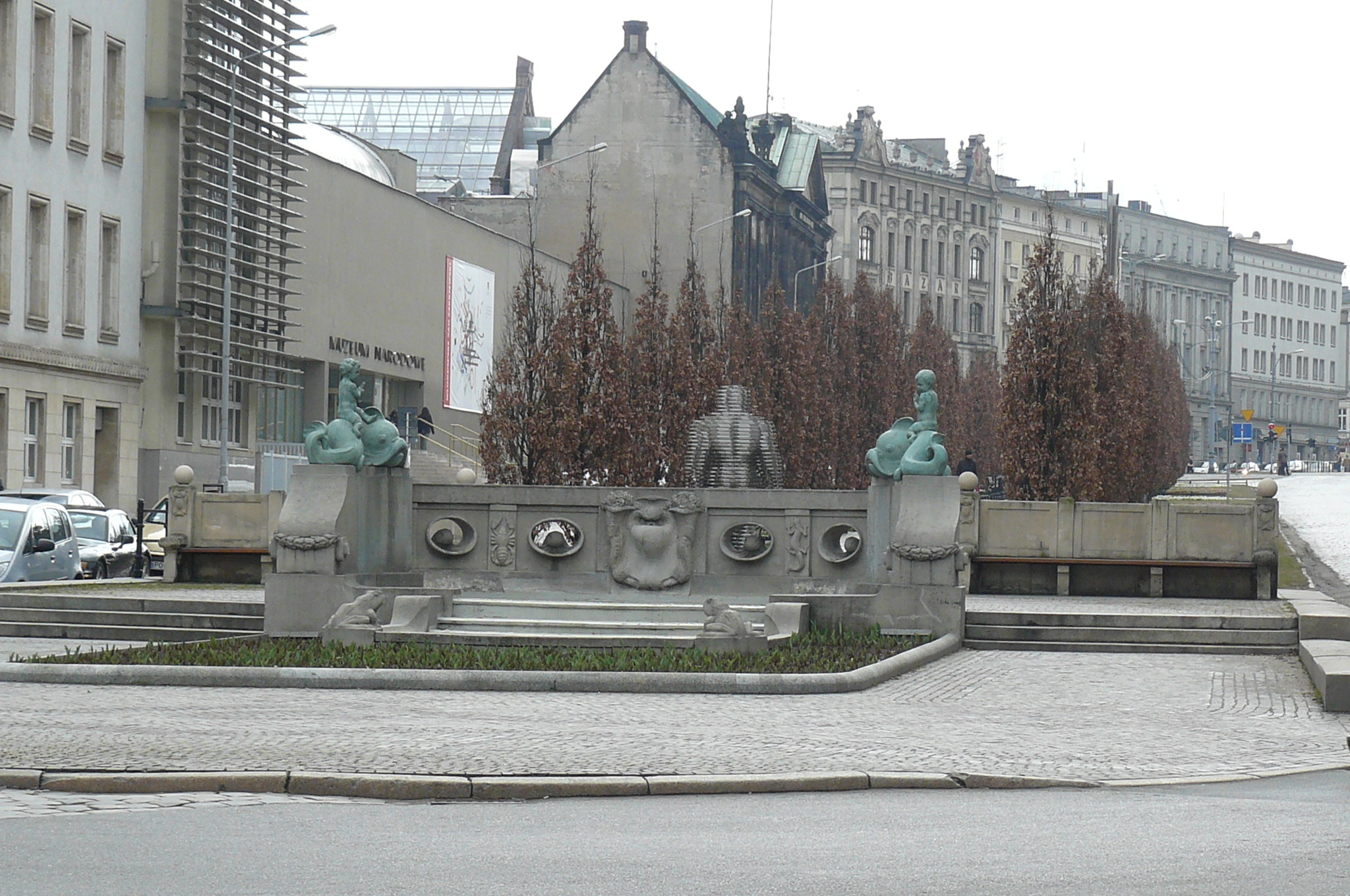 Kronthal Spring - Poznan.